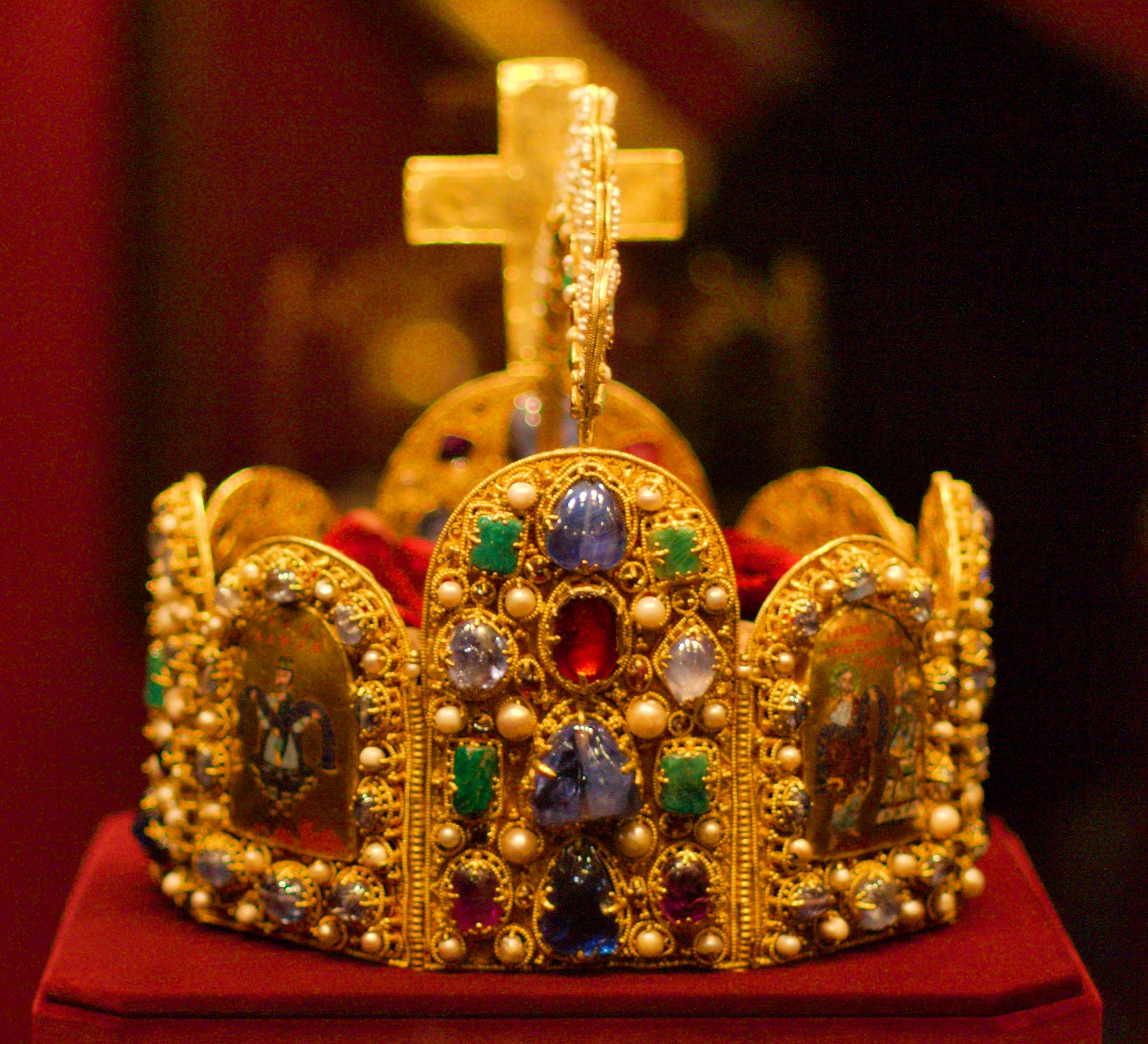 Imperial Crown of the Holy Roman Empire in "Schatzkammer" Vienna